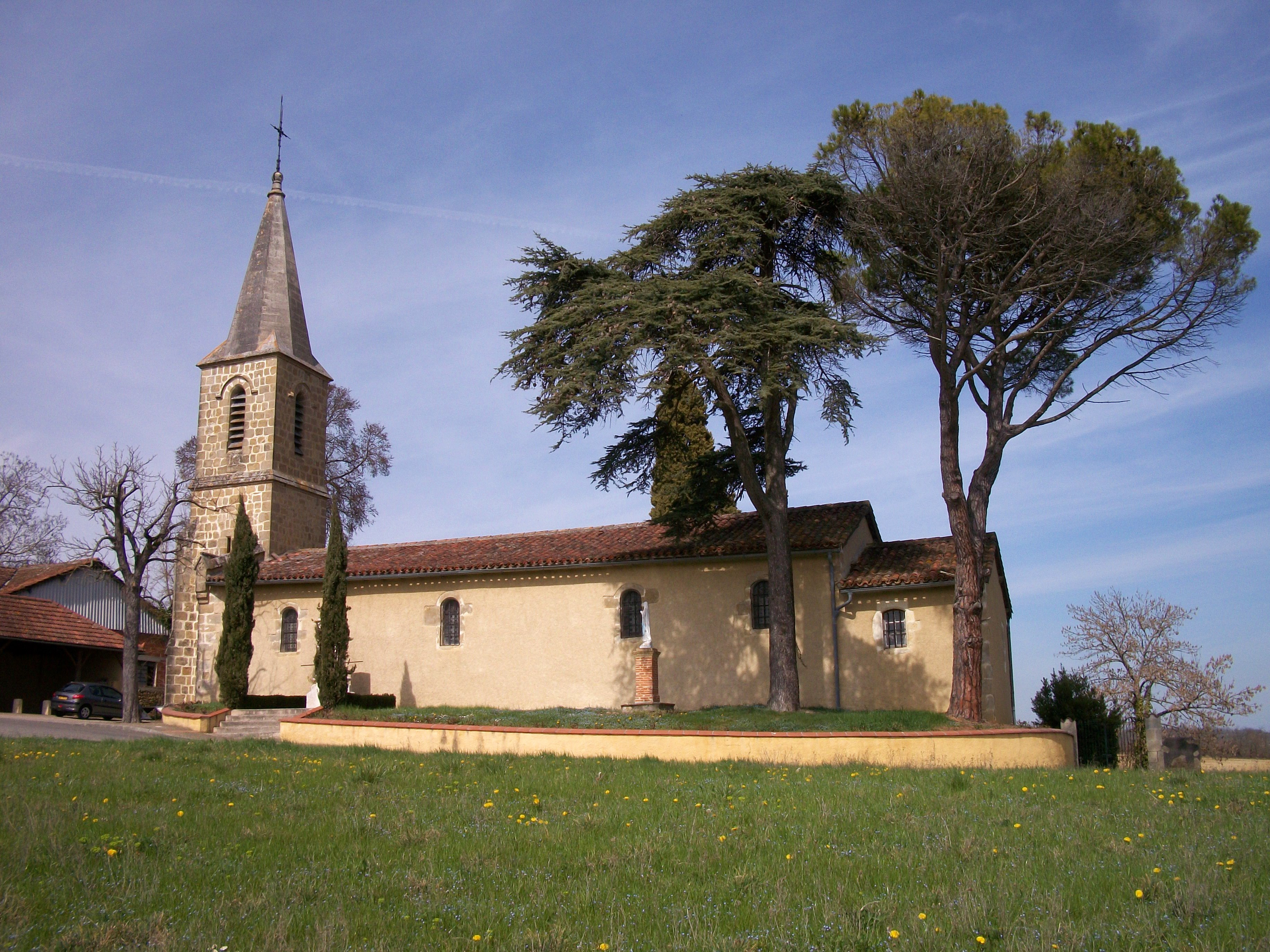 St. Jacob Church, Lasséran, Gers, France